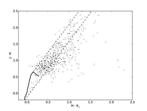 Color–color diagram of stars in the Trapezium cluster, created using data accessed at